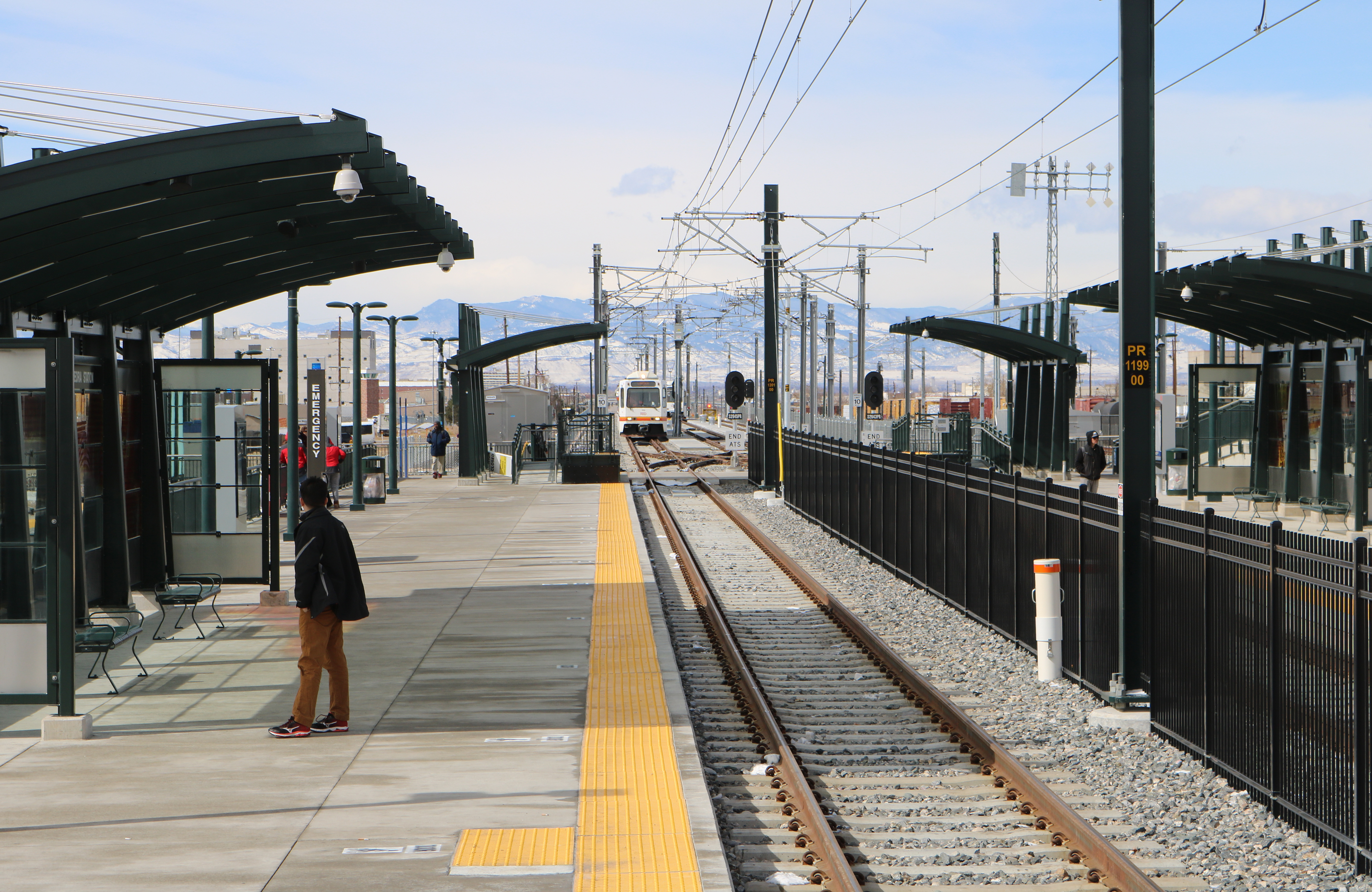 The R-Line light rail platform at Peoria Station, located at 11501 East 33rd Avenue in Aurora, Colorado.